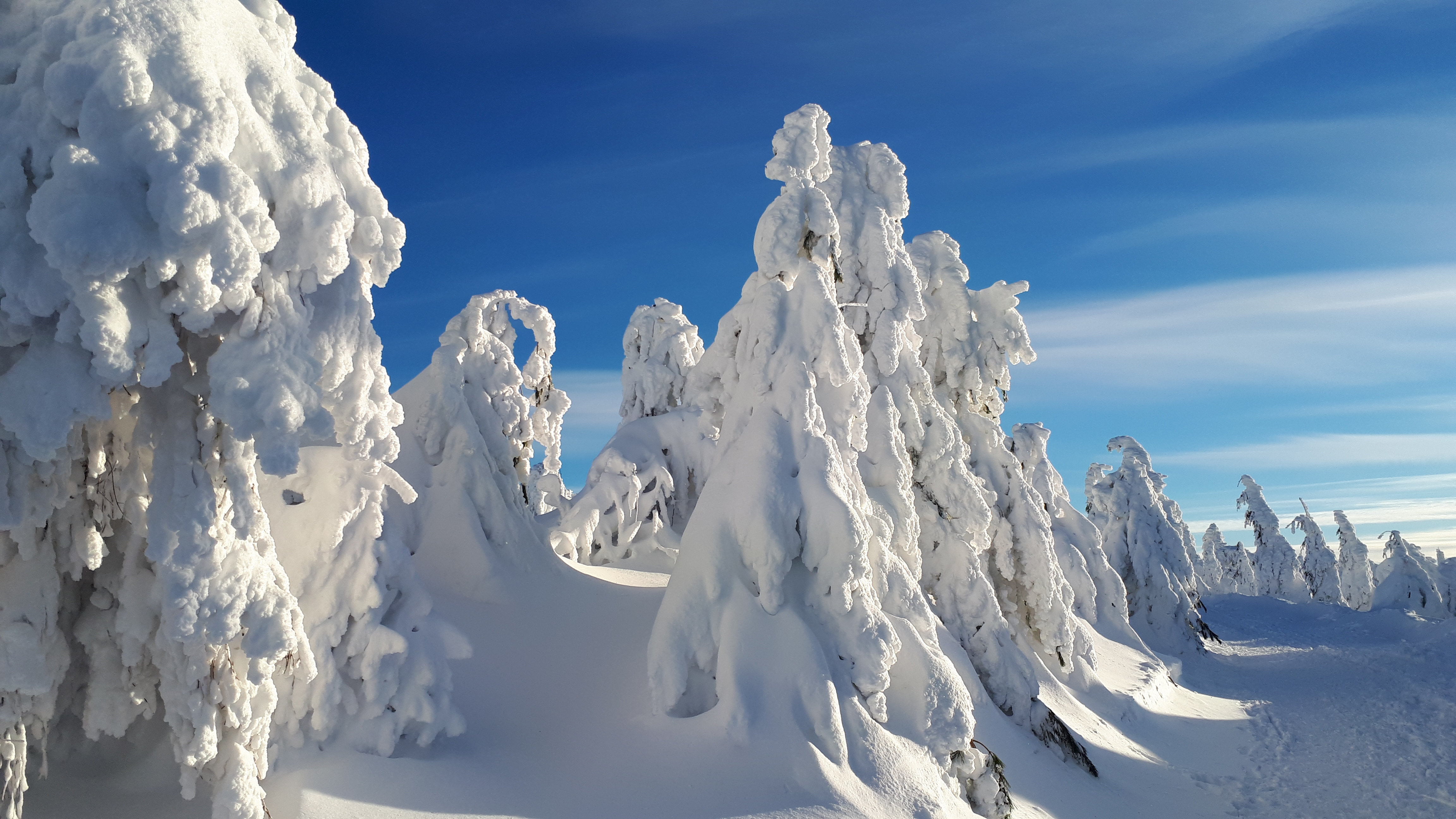 Naturschutzgebiet Fichtelberg Erzgebirgskreis nature reserve Fichtelberg